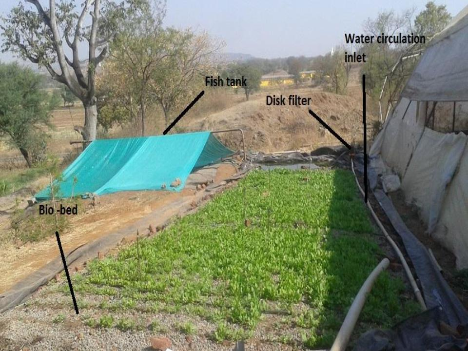 Aquaponics1 in vigyan ashram